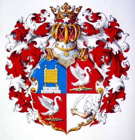 Coat of Arms of Karamyshev family